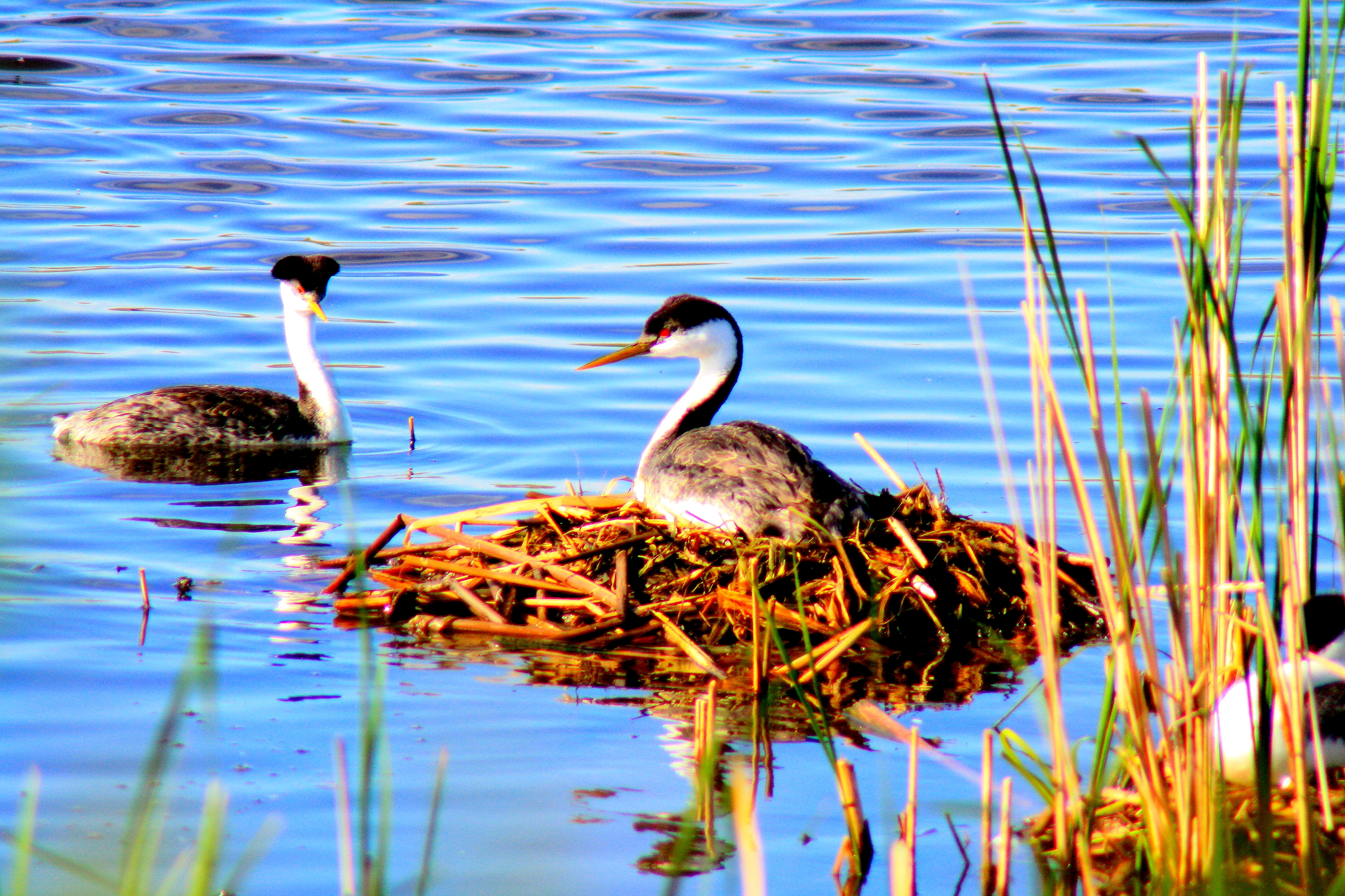 A pair of nesting Western grebes in a colony of approximately 200. Location: Haglund Waterfowl Production Area, Chase Lake Wetland Management District Credit: Neil Shook / USFWS Photo Contest Entry #177